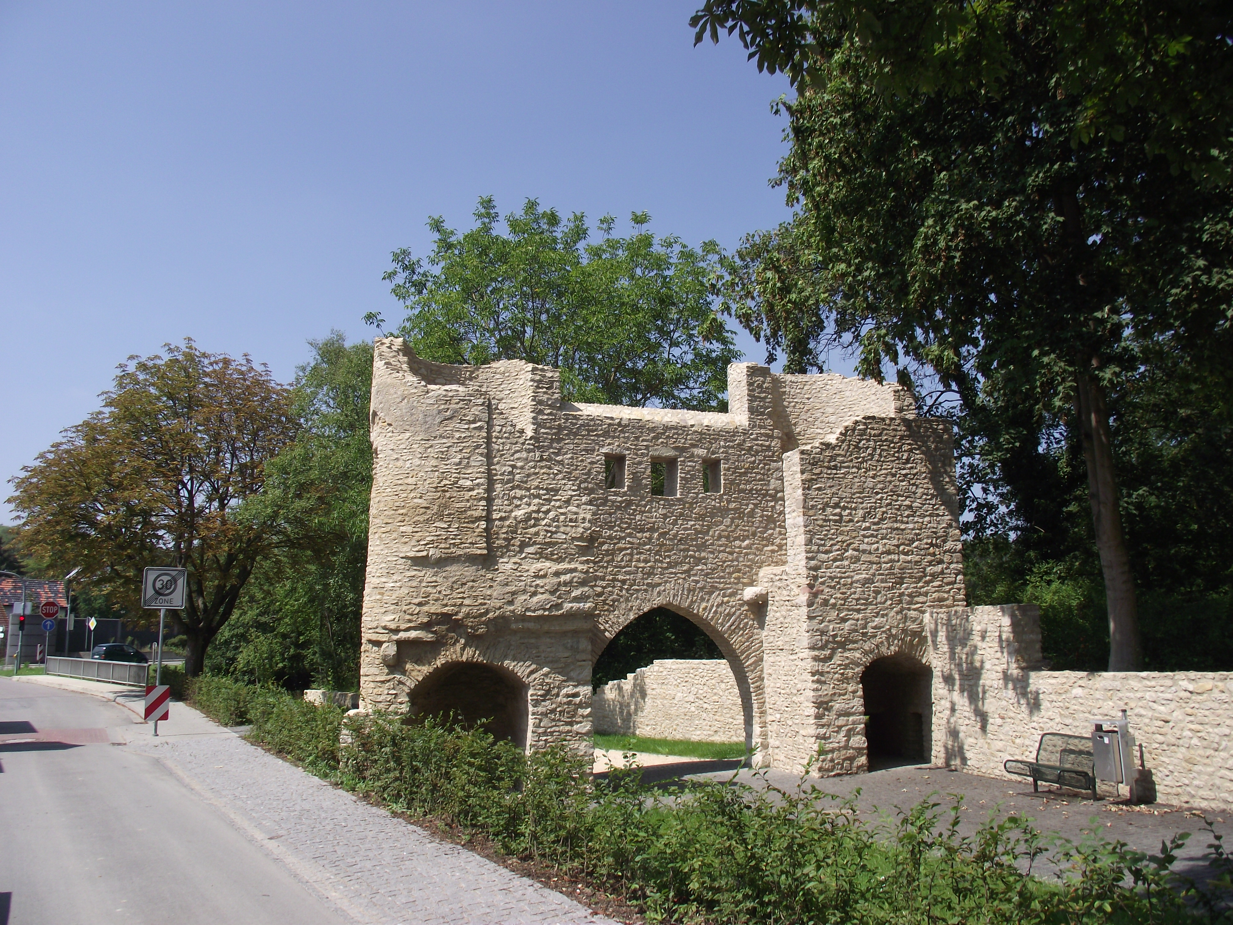 Ohrenbruecker Gate Ingelheim 2009